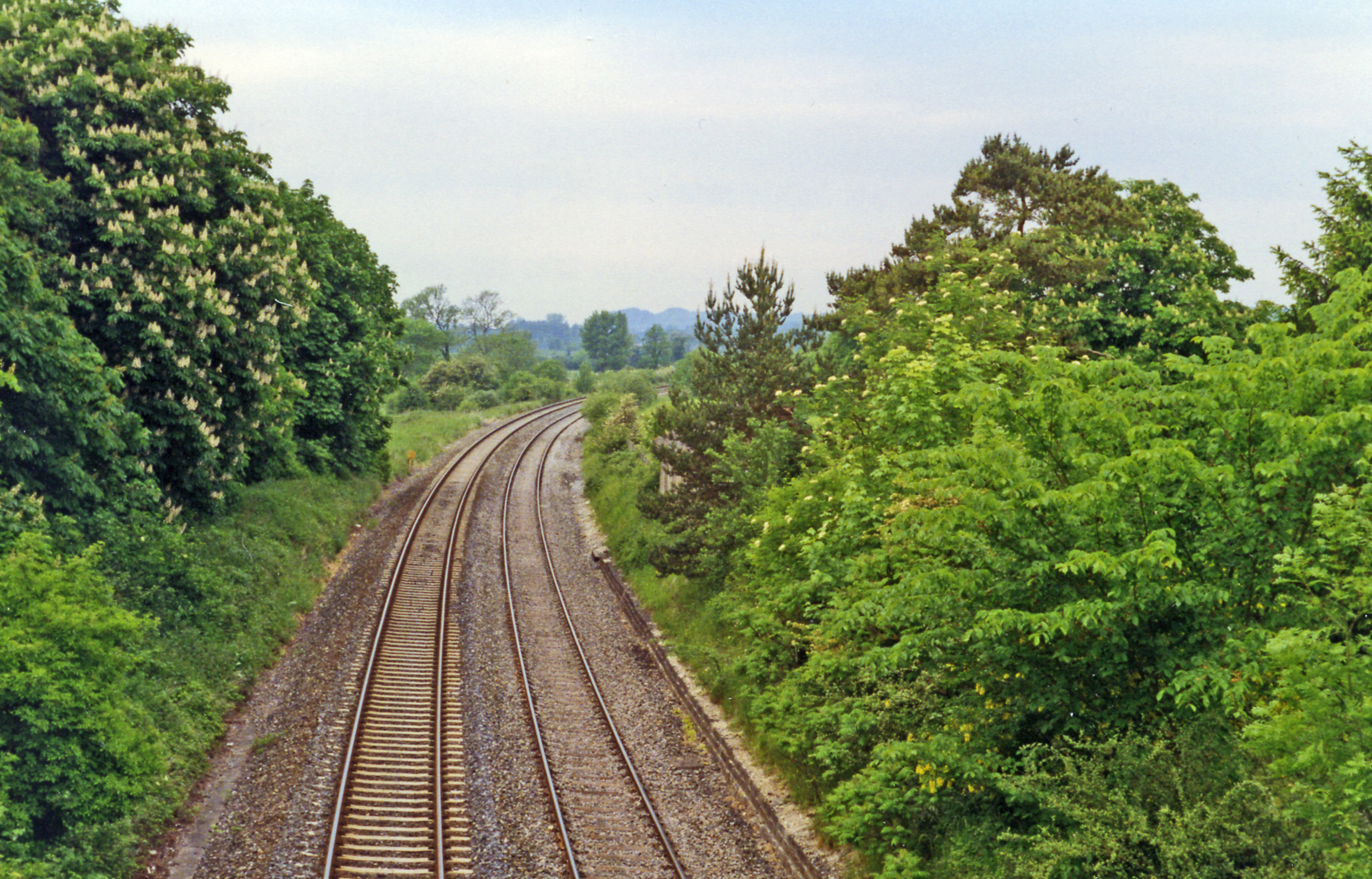 Site of former Heytesbury station. View NW, towards Westbury: ex-GWR (Bristol etc.) - Westbury - Salisbury secondary main line. The station was closed 19/9/55, but the line remains an important link to Southampton etc. from Bristol and South Wales.